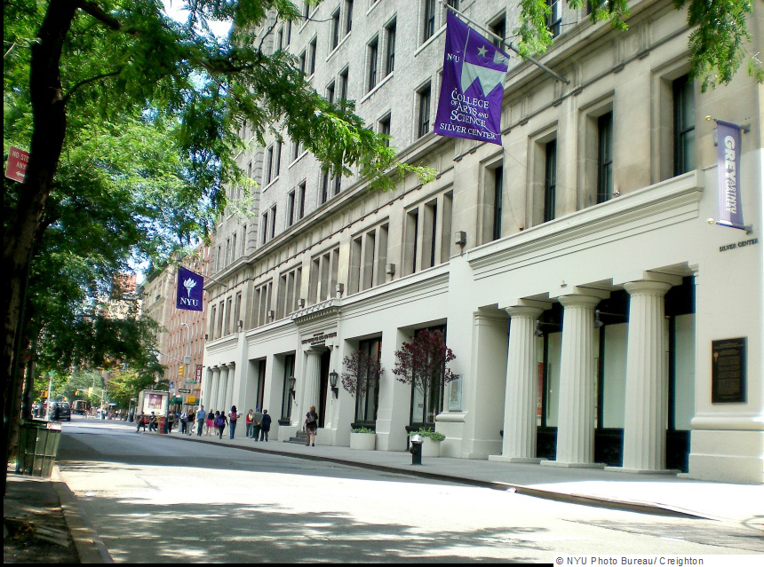 Silver Center for Arts and Science